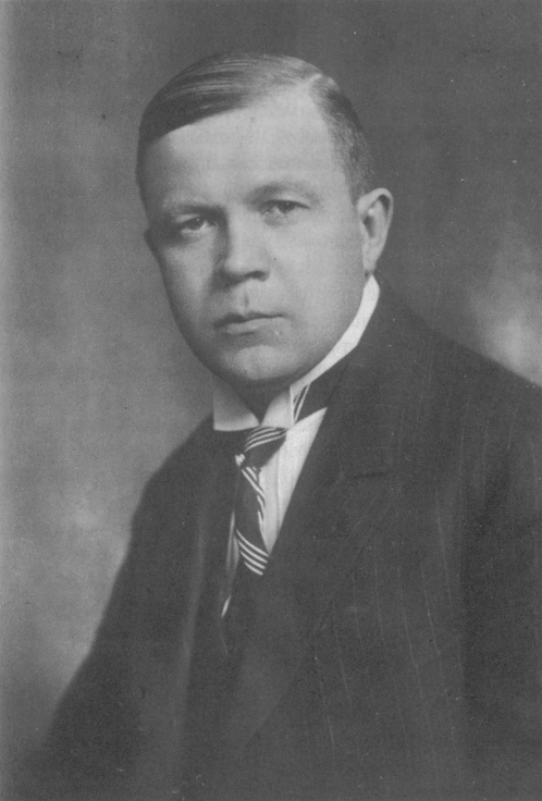 Photograph of the Finnish psychoanalyst Yrjö Kulovesi (1887–1943).